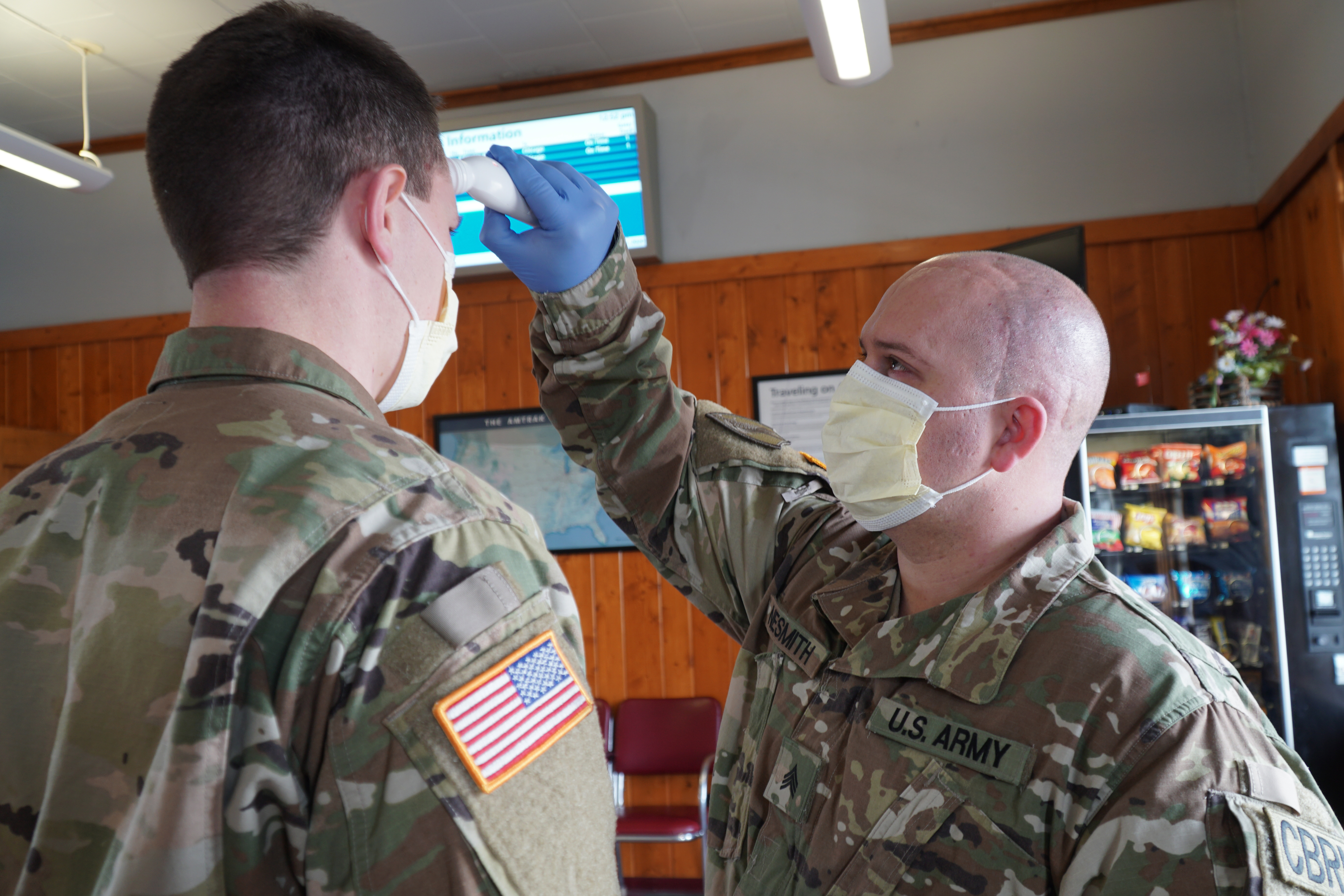 Army Sgt. Willy Nesmith with the 631st Chemical Company from Cut Bank, Montana takes the temperature of Army Spc. Trevor Dodson with the 1-189th GSAB from Shelby, Montana as a part of daily personal wellness verification at the Amtrak Train Station in Shelby, Montana, April 3, 2020. 73 Montana Army and Air National Guard men and women have been activated for State Active Duty by Governor Steve Bullock to screen 17 locations around the state in effort to flatten the curve in Montana. (U.S. Air National Guard photo by Staff Sgt. Brandy Burke)